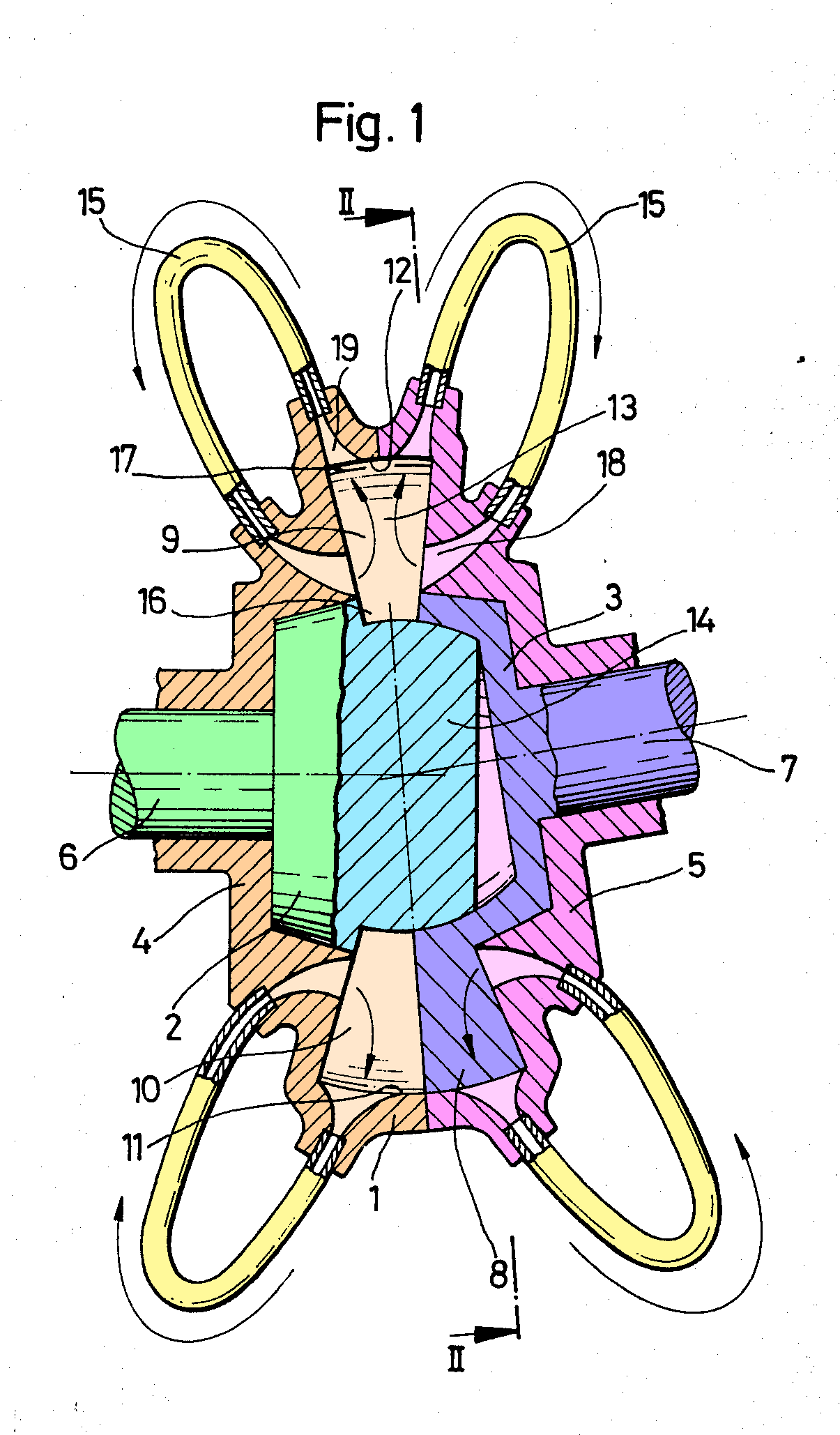 Schukey Engine